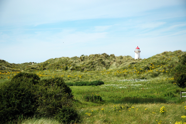 A view of Talacre Lighthouse. Taken and uploaded by Matt Cox. View this photo on Flickr.